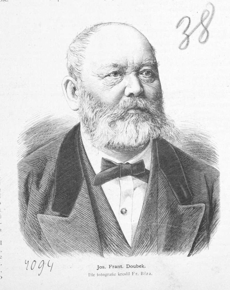 Portrait of Josef František Doubek (1806-1882), Czech entrepreneur.